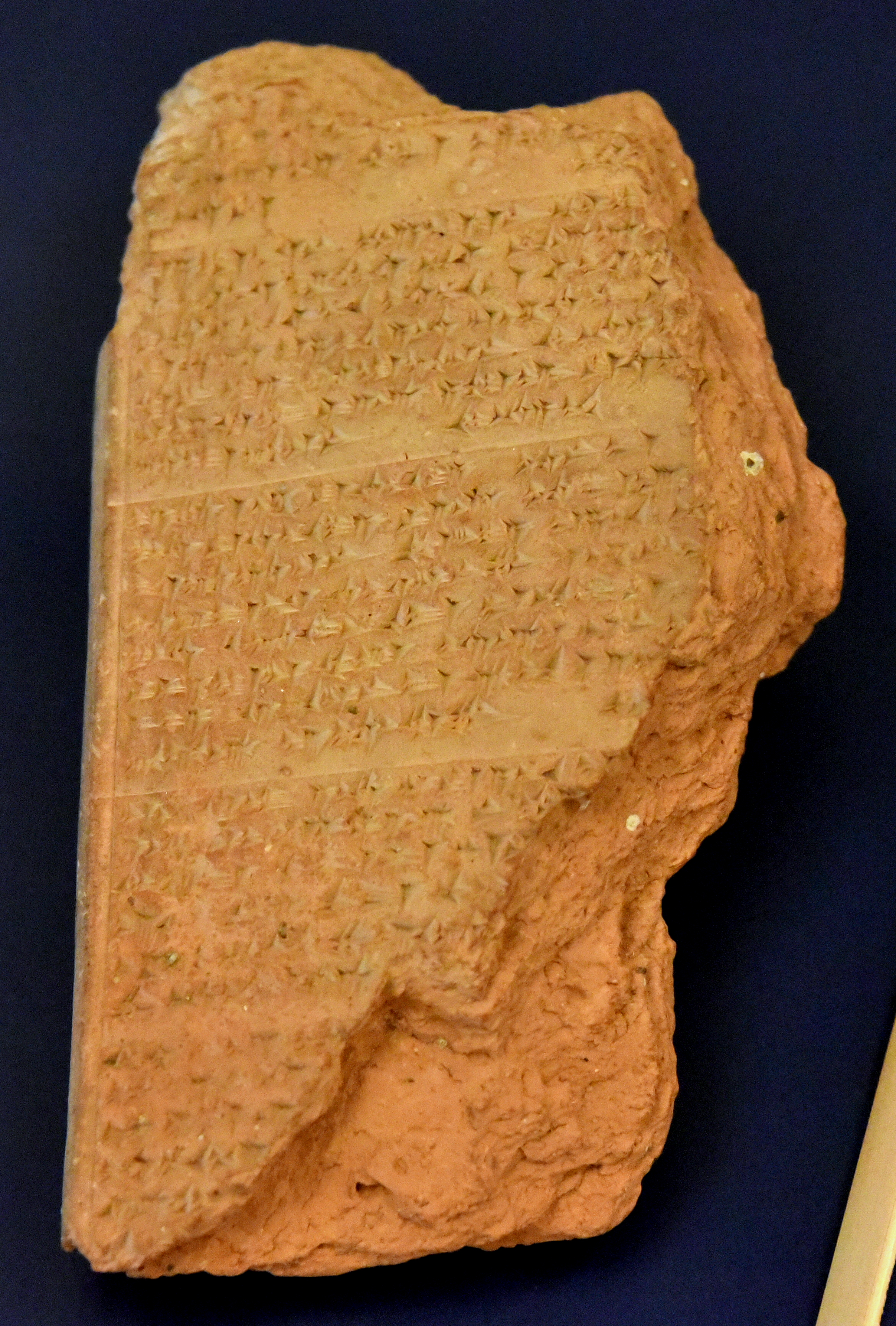 The cuneiform inscription on this clay tablet (VAT 12890) narrates part of the Epic of Gilgamesh (written c. 2150 - 1400 BCE). The obverse of this tablet relates the second dream of Gilgamesh on the journey to the Forest of Cedar, and part of the text of this passage has already been interpolated into the standard version of the epic at Tablet IV 55. The reverse holds a badly corrupted version of the episode of Ishtar and the Bull of Heaven. From Hattusa, in modern-day Turkey. 13th century BCE. It was displayed at the Neues Museum in Berlin, Germany, Exhibition of "Cinderella, Sindbad & Sinuhe, Arab-German Storytelling Traditions", April 18, 2019, to August 18, 2019. State Museums in Berlin, Vorderasiatisches Museum ((Staatliche Museen zu Berlin, Vorderasiatisches Museum), VAT 12890.